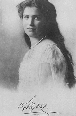 Grand Duchess Maria Nikolaevna of Russia autograph card. Interesting tidbit: Until his own assassination in 1979, her first cousin, Louis Mountbatten, 1st Earl Mountbatten of Burma, kept this photograph of Maria beside his bed in memory of the crush he had upon her.